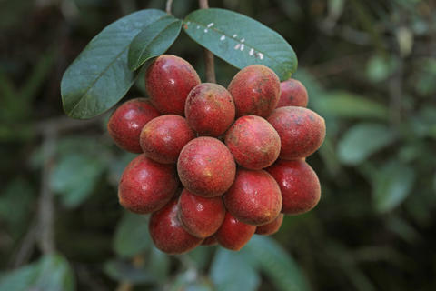 Fissistigma oldhamii